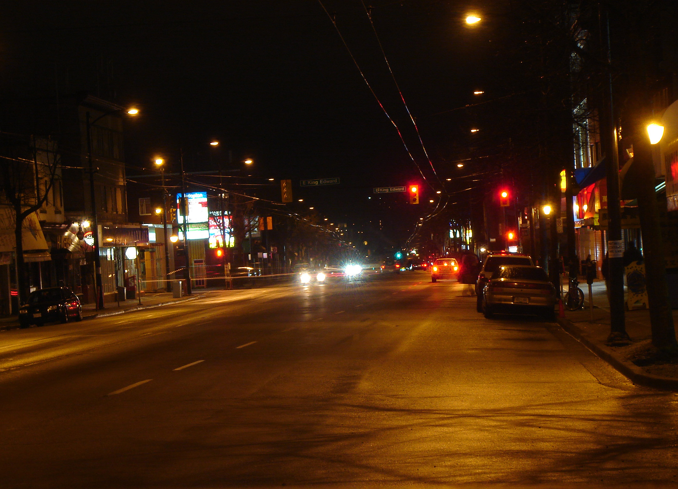 Photo by me Taken February 4, 2007